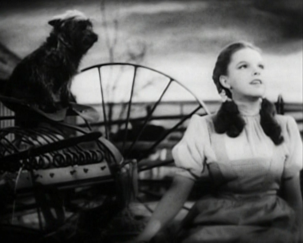 Screenshot of Judy Garland performing Over the Rainbow for the film The Wizard of Oz.